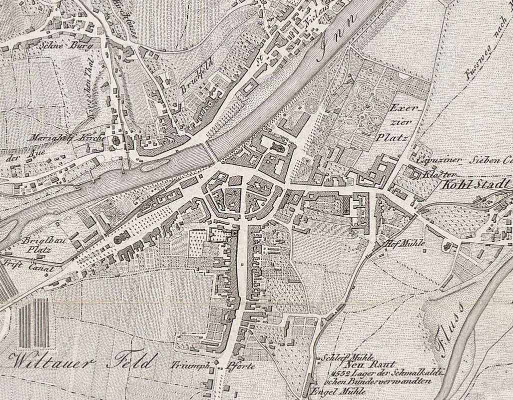 Map of Imperial and Royal Provincial Capital Innsbruck and surroundings: detail map – Innsbruck center